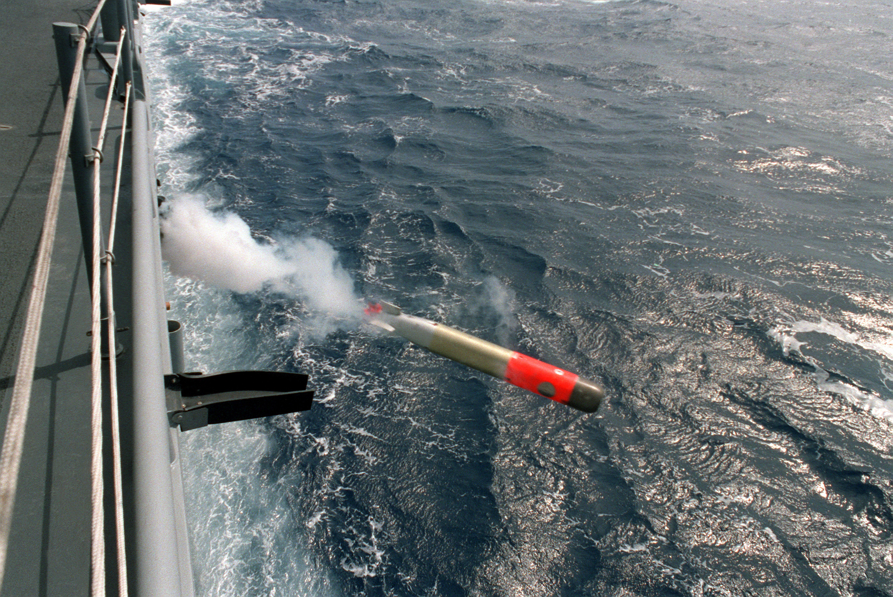 A Mark 46 torpedo is launched from a U.S. Navy Oliver Hazard Perry-class frigate during Exercise RimPac '86.